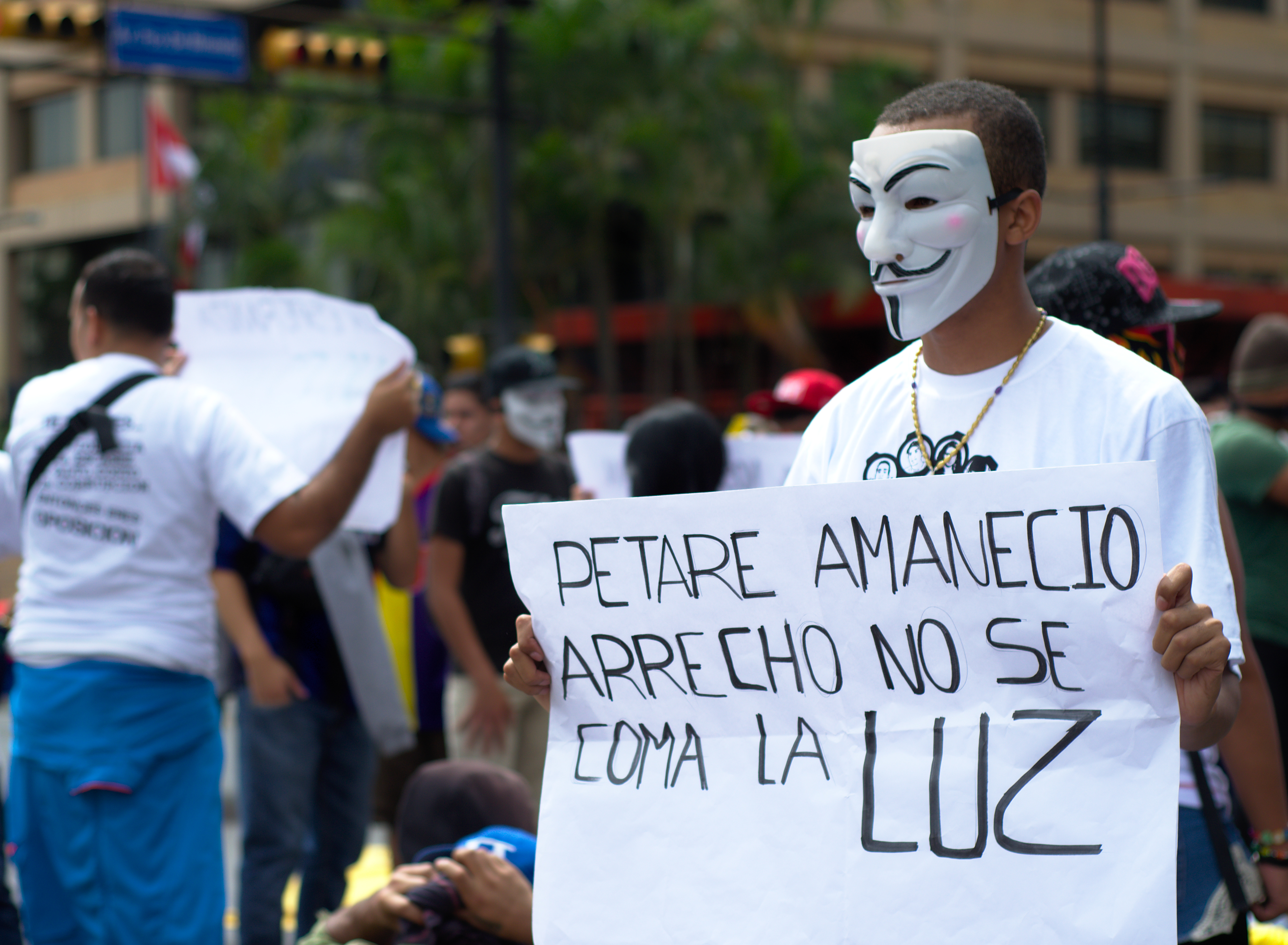 A protester at a 23 November protests holding a sign saying "Petare dawned furious, they do not have light".